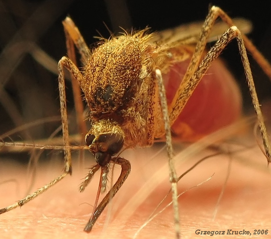 Mosquito female suck my blood.